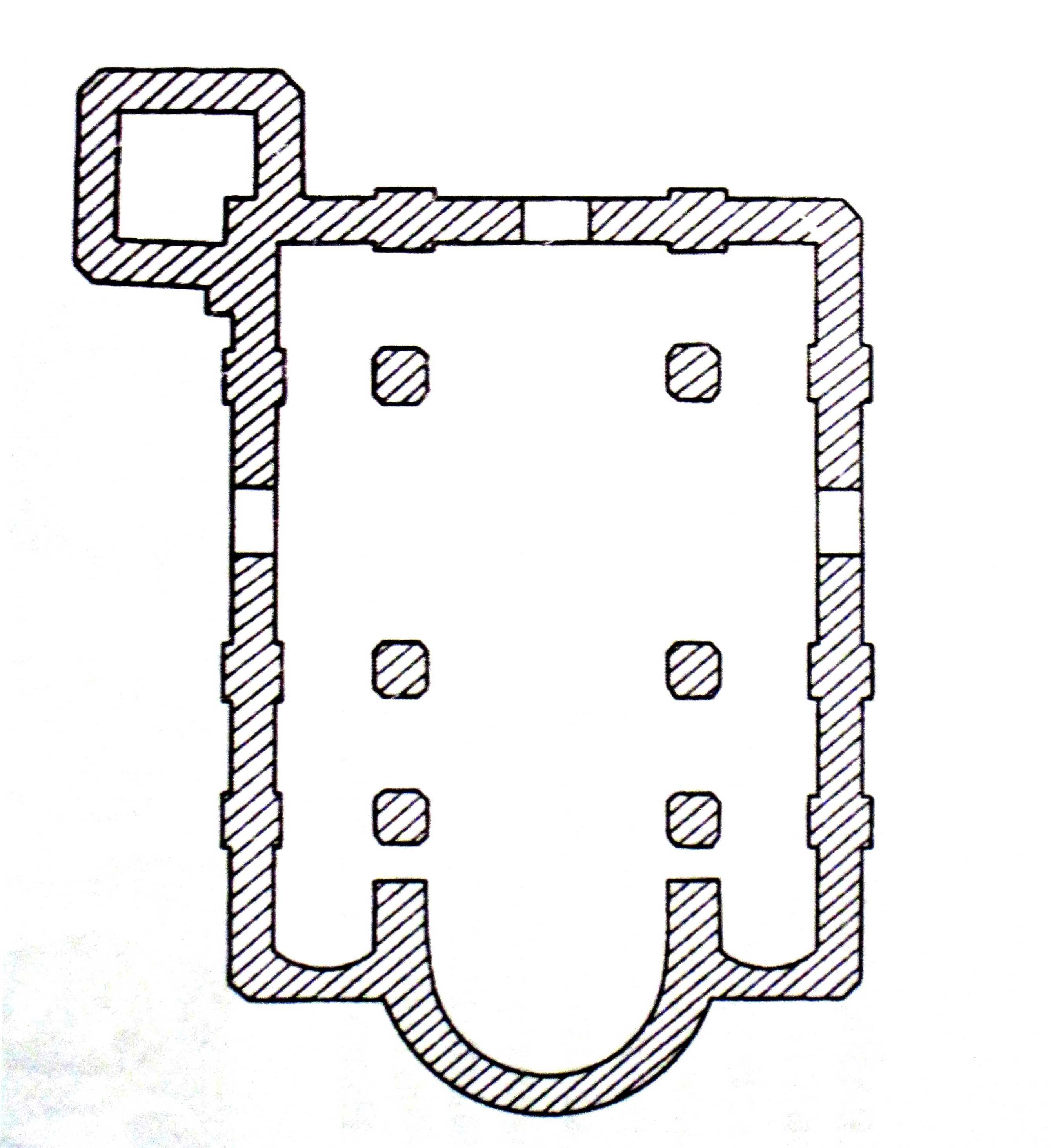 План царквы ў Ваўкавыску на Замкавай гары.